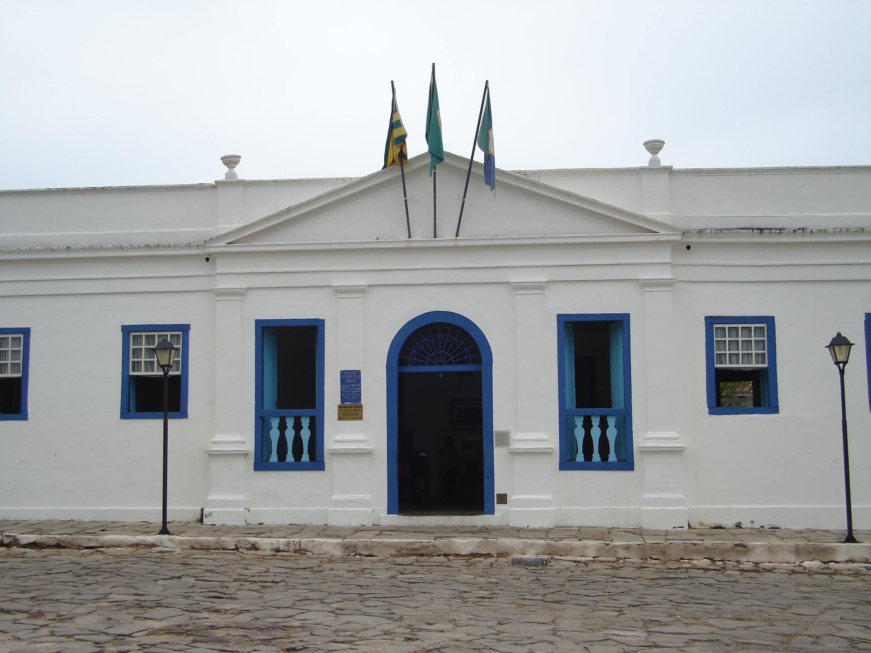 Palácio Conde dos Arcos, former main administrative buiding of the Capitania, Province and State of Goiás, Brazil.